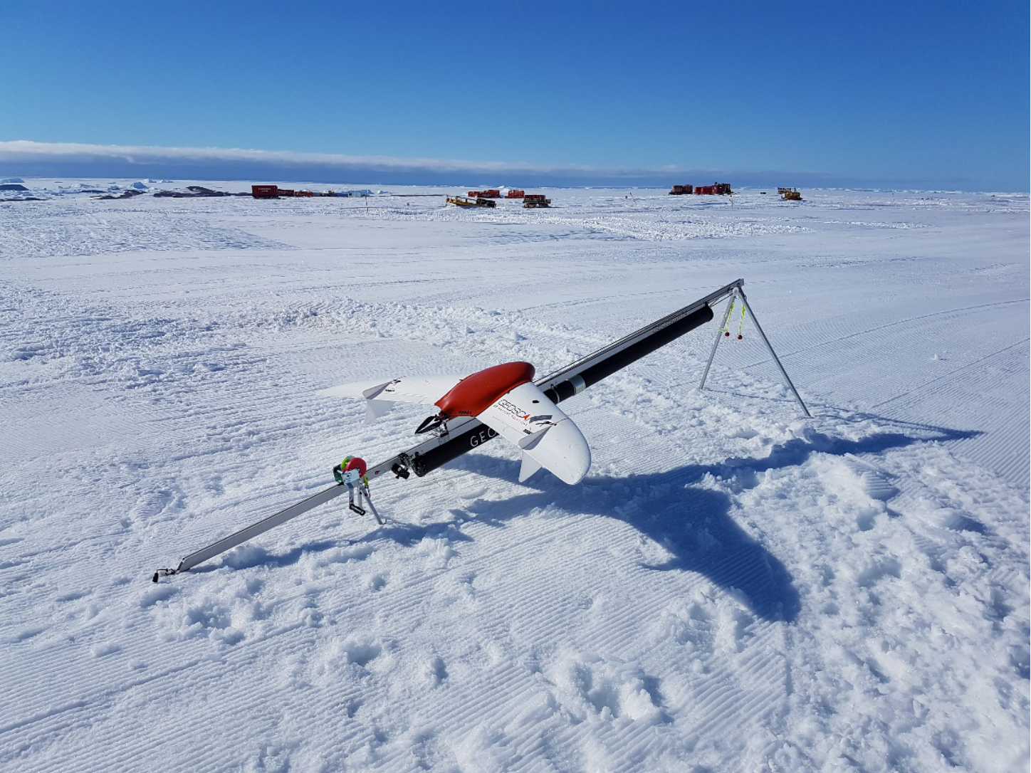 Geoscan 201 in Antarctica